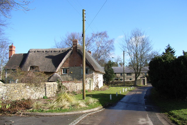 Turweston, Buckinghamshire. On the left is Thatched Rose Cottage, which is 17th- or 18th-century. Ahead is Turweston Barn, now converted into a private house.